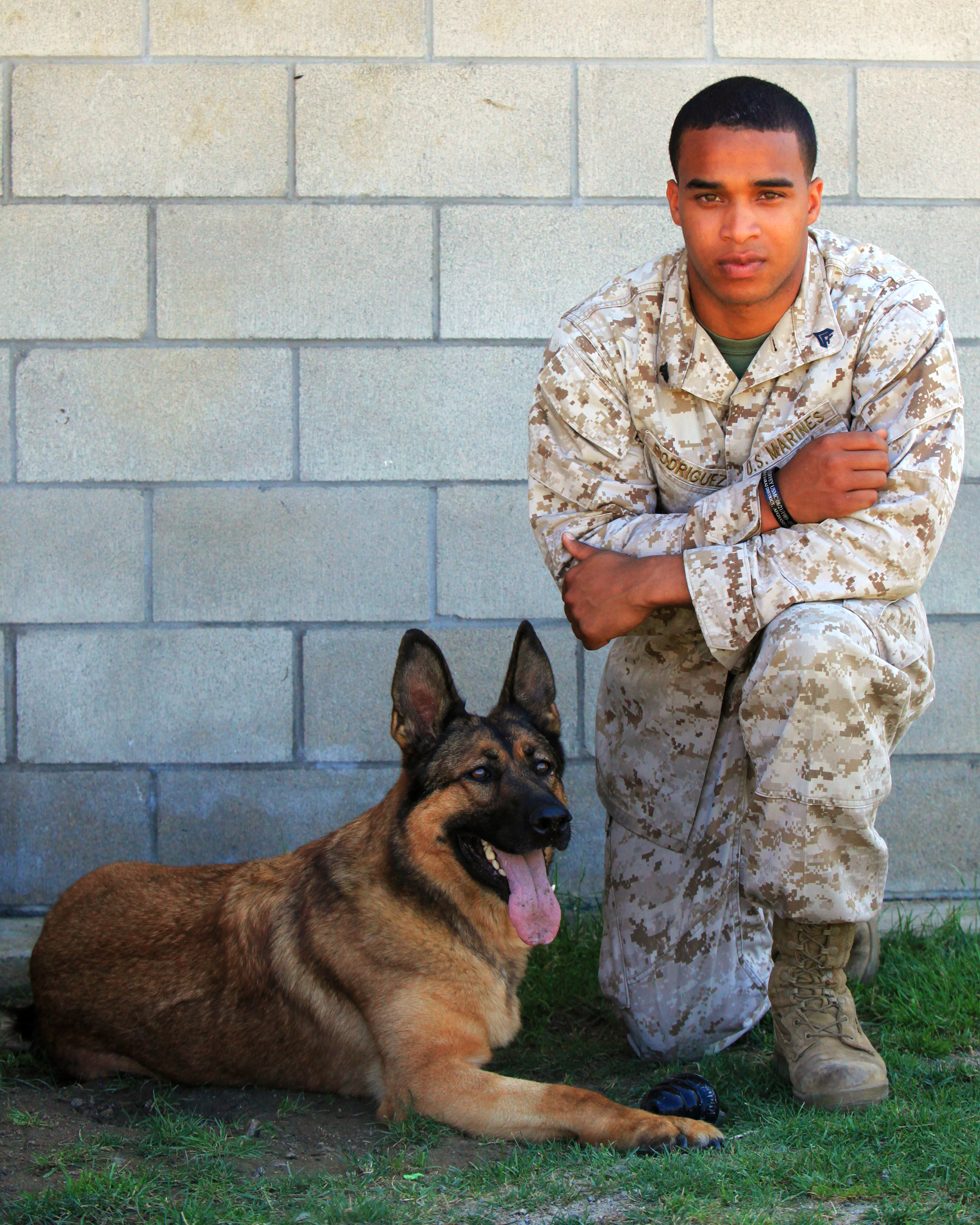 Cpl. Juan M. Rodriguez, military dog handler with 1st Law Enforcement Battalion, I Marine Expeditionary Force, kneels next to Lucca, a 8-year-old Belgian Malinois military working dog, next to the battalion's dog kennel at Camp Pendleton, Calif., July 2. Lucca deployed twice to Iraq and once to Afghanistan where she was injured by an improvised explosive device. The injury led to the amputation of her left front leg and retirement from military service. Rodriguez, Lucca's current handler, is scheduled to escort the veteran K-9 from the base to Finland where she will reside with Gunnery Sgt. Christopher Willingham, Lucca's original trainer. During a turnover at O-Hare International Airport in Chicago, Ill., Lucca will be honored during a ceremony by American Airlines, which will provide transportation to Rodriguez and Lucca through its partnership with Air Compassion for Veterans. ACV is an organization that provides medically related air transport services to service members, veterans and their families. During her military service, Lucca uncovered more than 40 IEDs and saved countless lives.